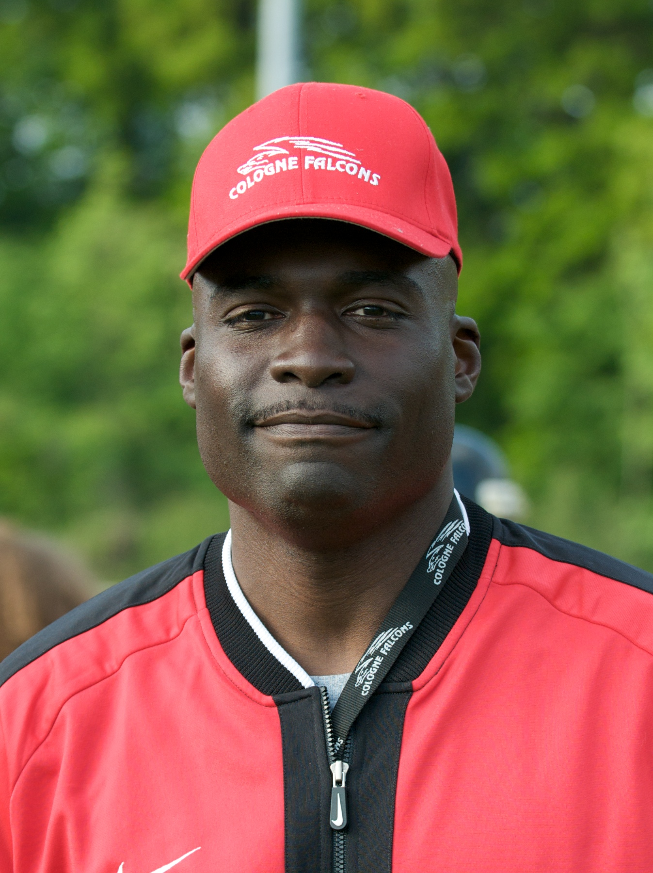 James Jenkins, former Washington Redskins player. Currently head coach of the Cologne Falcons. Picture taken in Lübeck, Germany during a game between Cologne Falcons and Lübeck Cougars.